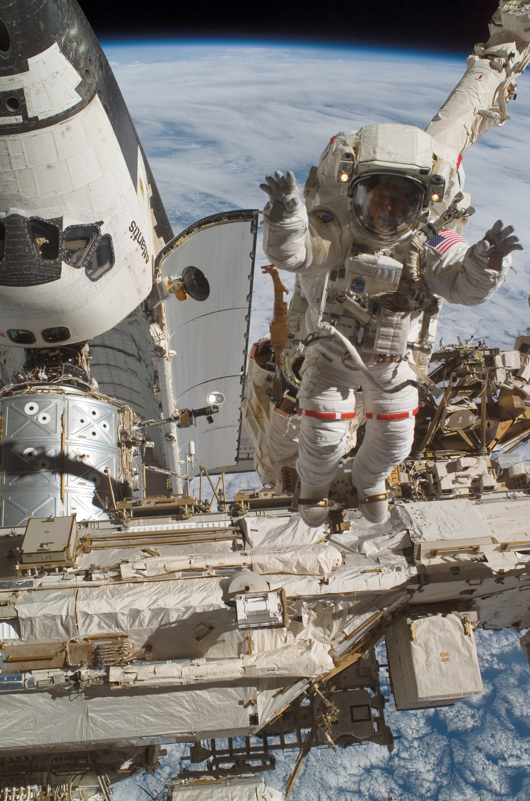 Anchored to a foot restraint on the Space Station Remote Manipulator System (SSRMS) or Canadarm2, astronaut Patrick Forrester, STS-117 mission specialist, participates in the mission's second planned session of extravehicular activity (EVA), as construction resumes on the International Space Station. Among other tasks, Forrester and astronaut Steven Swanson (out of frame), mission specialist, removed all of the launch locks holding the 10-foot-wide solar alpha rotary joint in place and began the solar array retraction. Space Shuttle Atlantis docked to the station is visible at left.